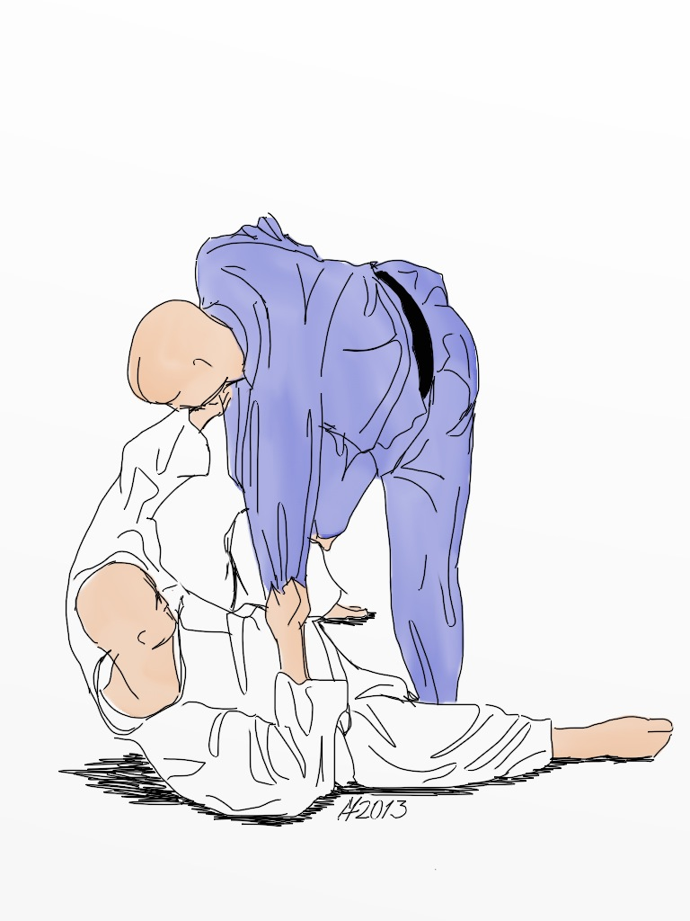 Illustration of the judo throw uki-waza, or floating technique where you sacrifice yourself to throw your opponent forward.